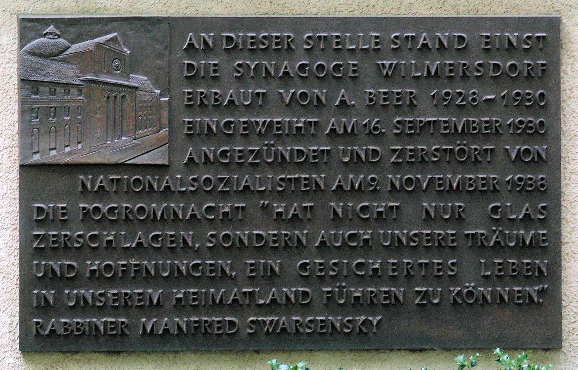 Memorial plaque, Synagoge Wilmersdorf, Prinzregentenstraße 70, Berlin-Wilmersdorf, Germany Koordinate:52°29′27″N 13°20′6″E / 52.49083°N 13.335°E